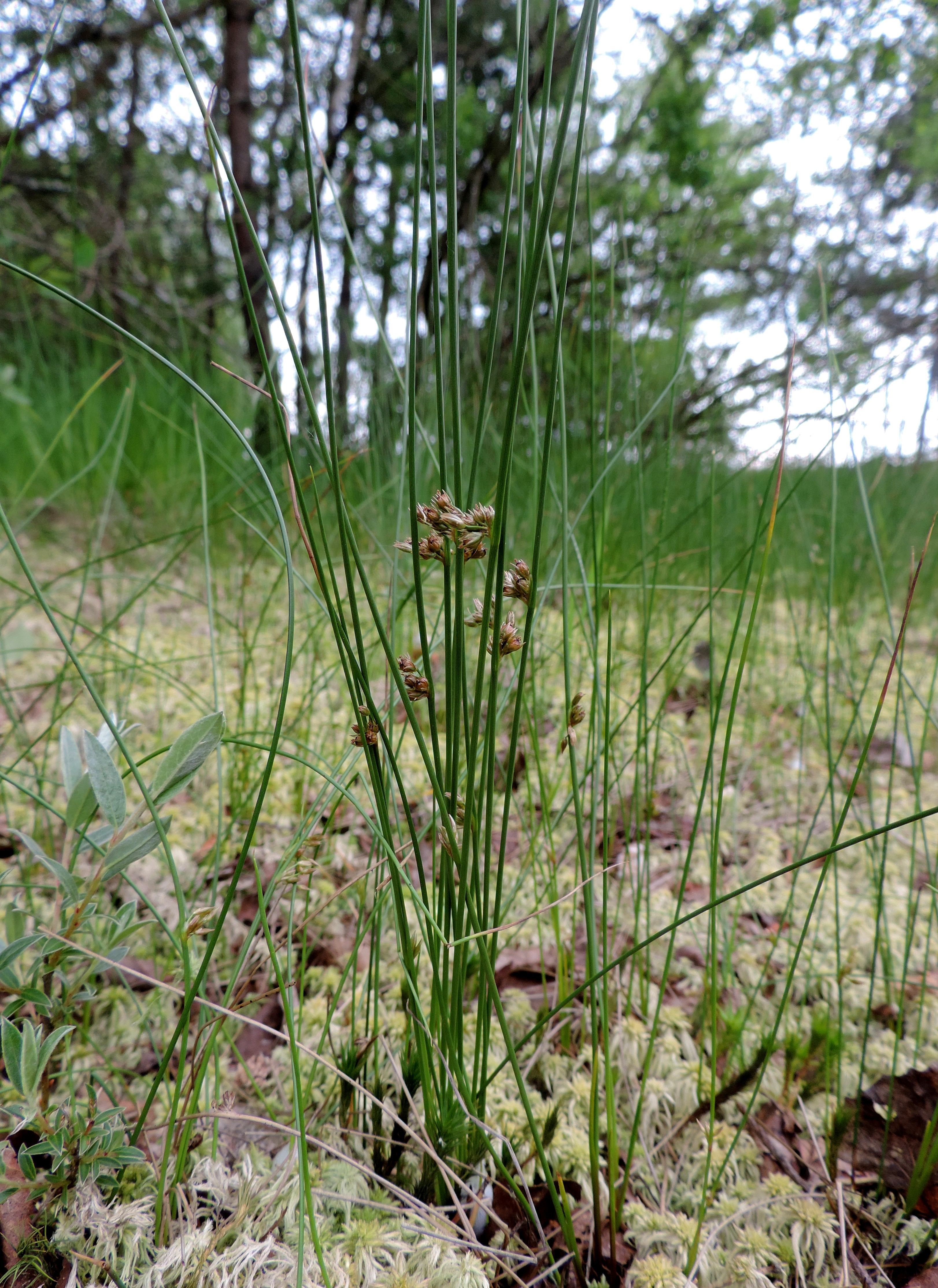 Juncus filiformis on Czarne Lake in Gniewino Commune, N Poland